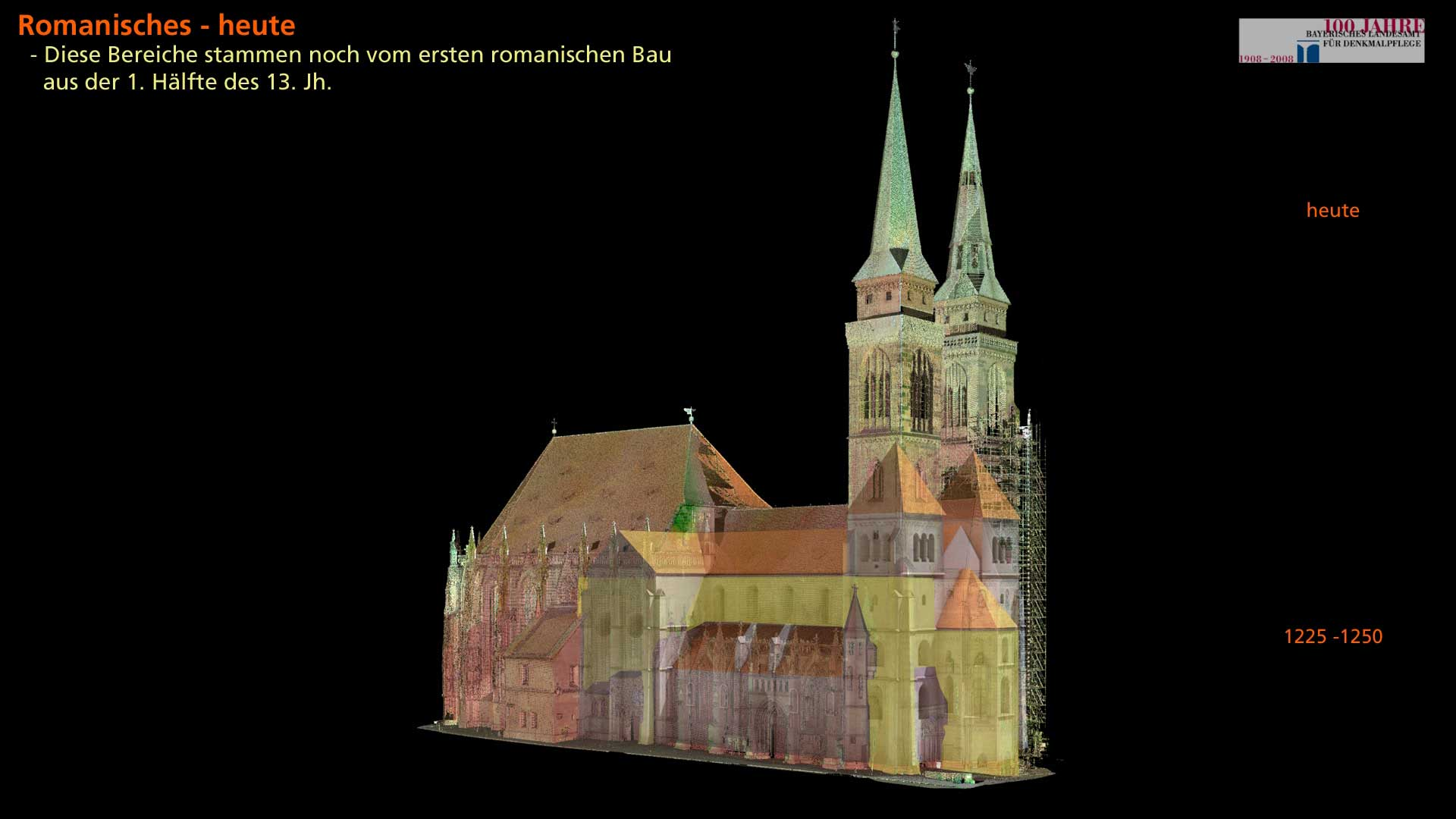 This historic restoration shows the Romanesque period Saint Sebaldus Church in combination with the current condition of the Church. This view is a combination of 3D digital historic restoration and a point cloud from the laser scan of the current condition of the Church, seen here in reddish-brown.